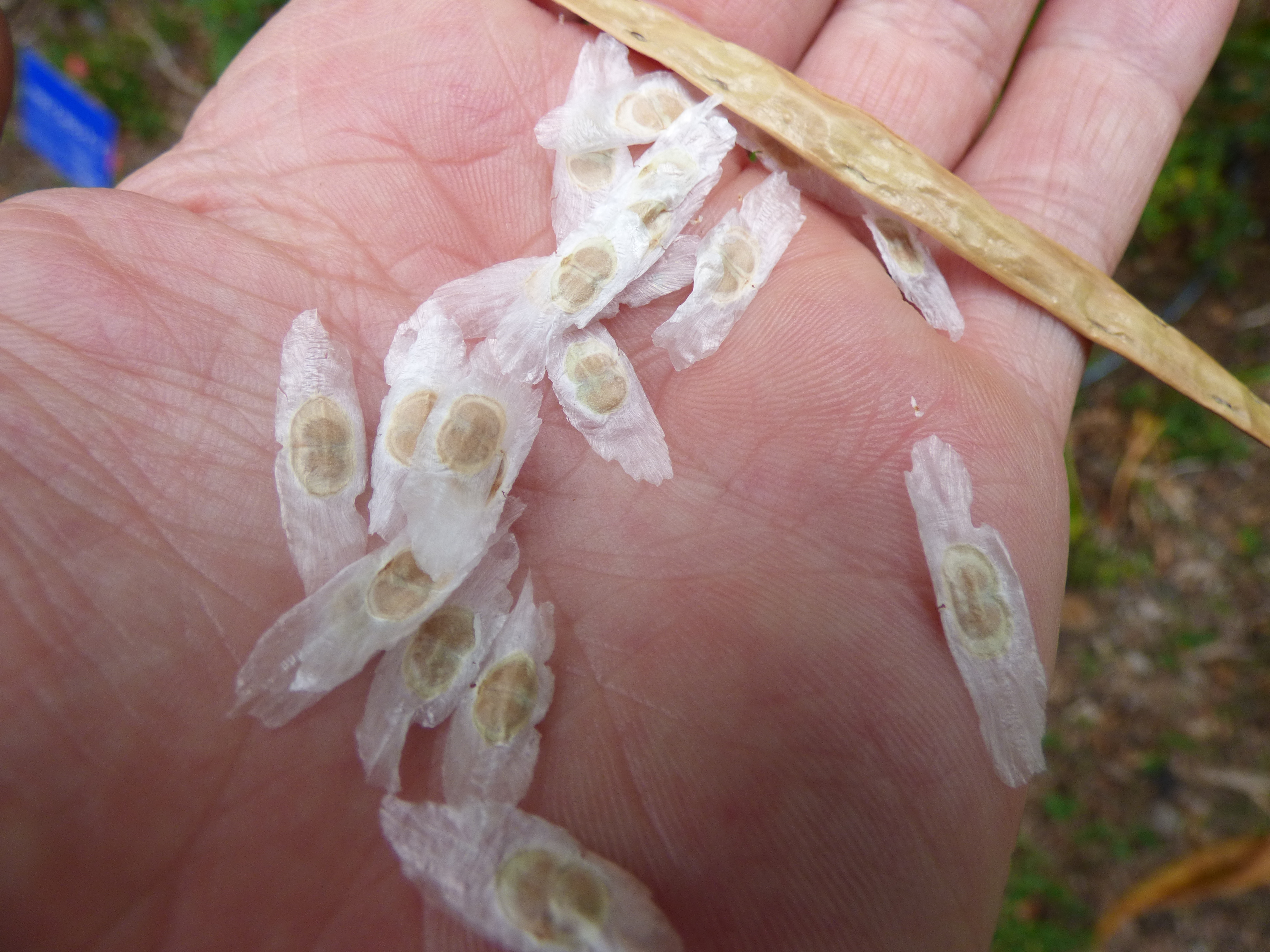 Tecoma stans (Yellow tecoma) Papery seeds at Enchanting Floral Gardens of Kula, Maui, Hawaii. August 11, 2015 #150811-0592 Image Use Policy